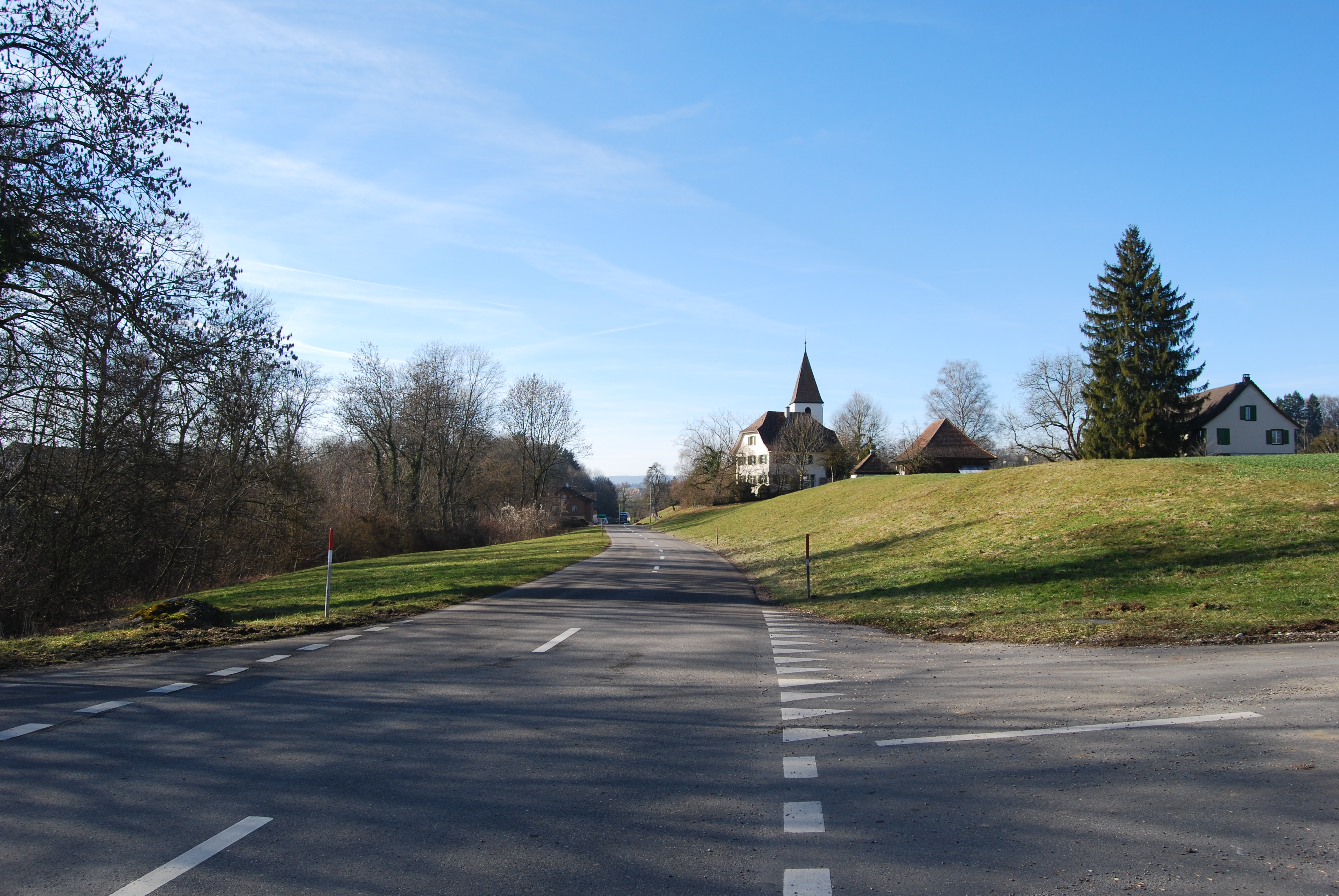 Lipperswil, municipality of Wäldi, canton of Thurgovia, Switzerland